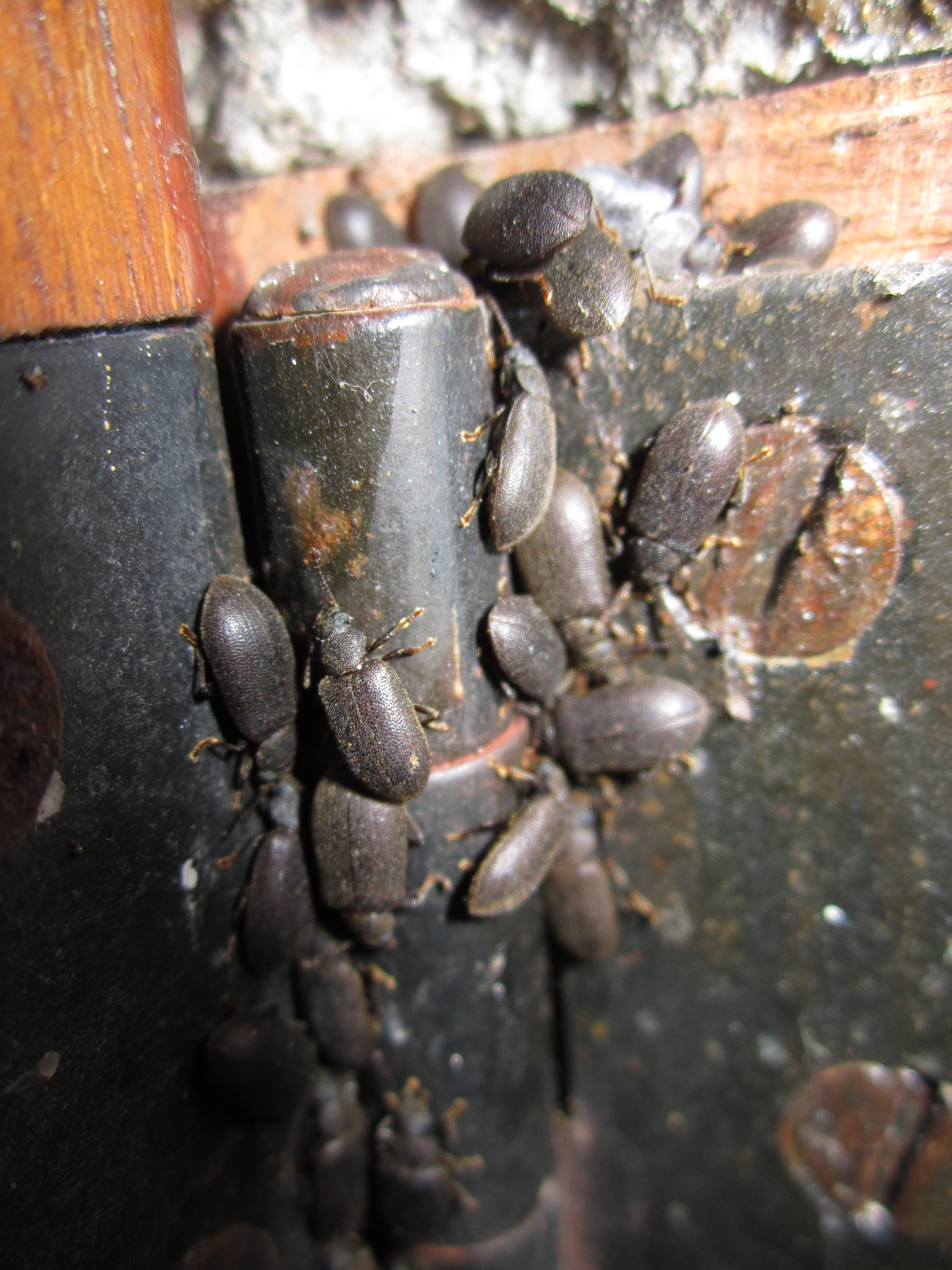 Luprops beetles found hiding in a door hinge inside a home in Kottayam district, Kerala, India. (Tenebrionidae, Coleoptera)